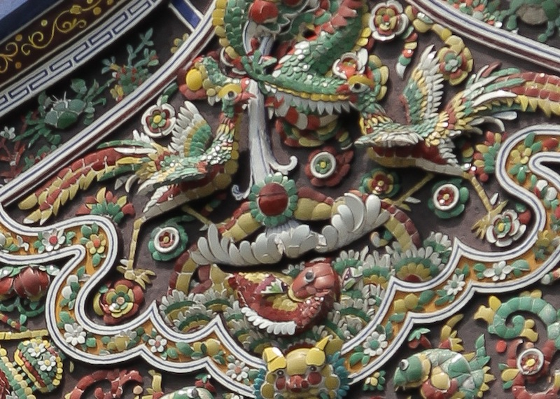 Detail of the porcelain work found in various areas around the mansion.